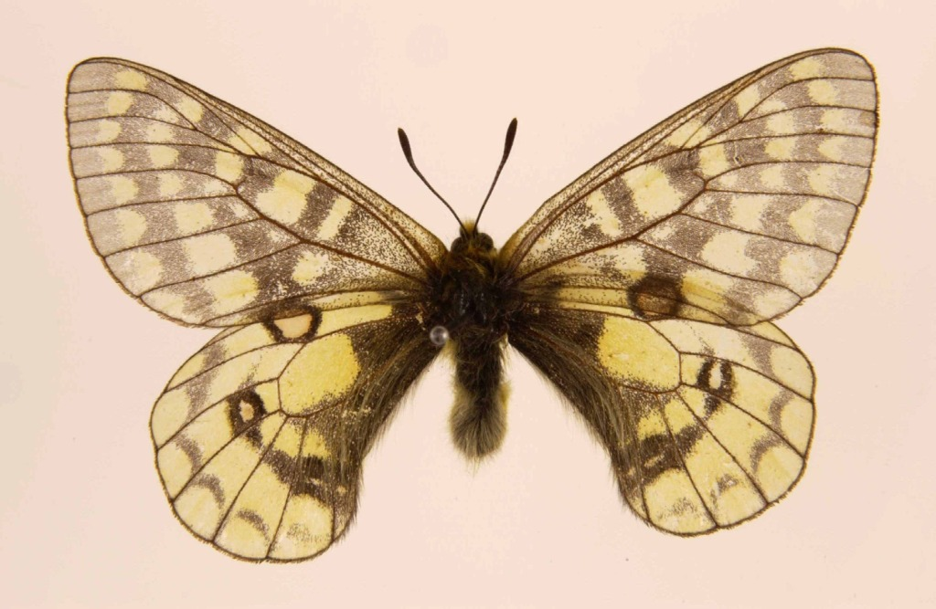 Parnassius eversmanni Menetries, 1849 subspecies maui Bryk. Female Kokkaido, Kamikawa, Mt. Daisetsu, Japan, 2,400 m. 13 August 1931 Mr7286 Peebles collection, Ulster Museum